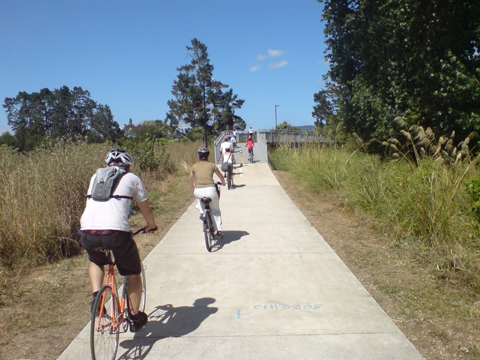 Cyclists on the Twin Streams Walk and Cycleways in Auckland, New Zealand. A late summer group ride organised by Cycle Action Auckland as part of 'Bikewise Month 2010'.